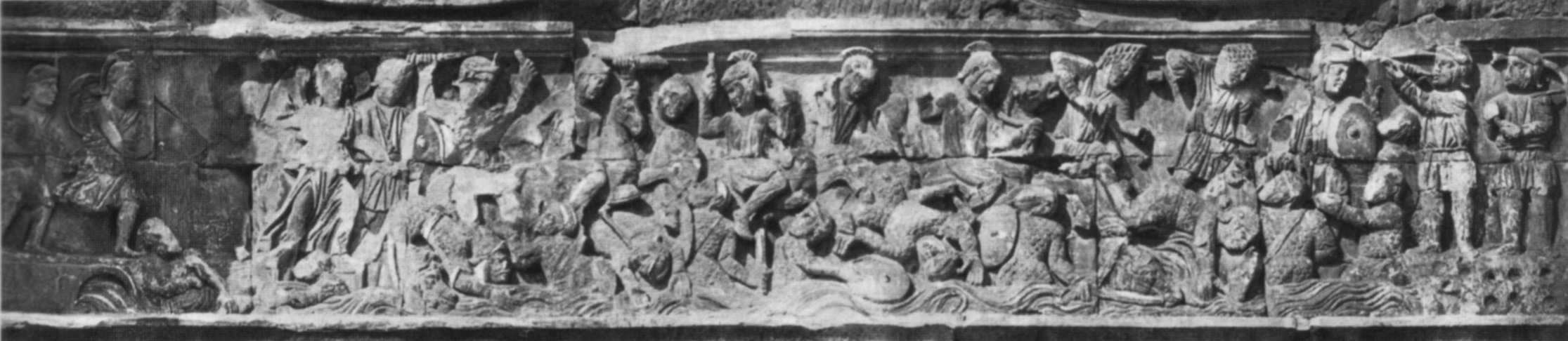 Constantinian frieze, Arch of Constantine, south east, depicting Battle of Milvian Bridge